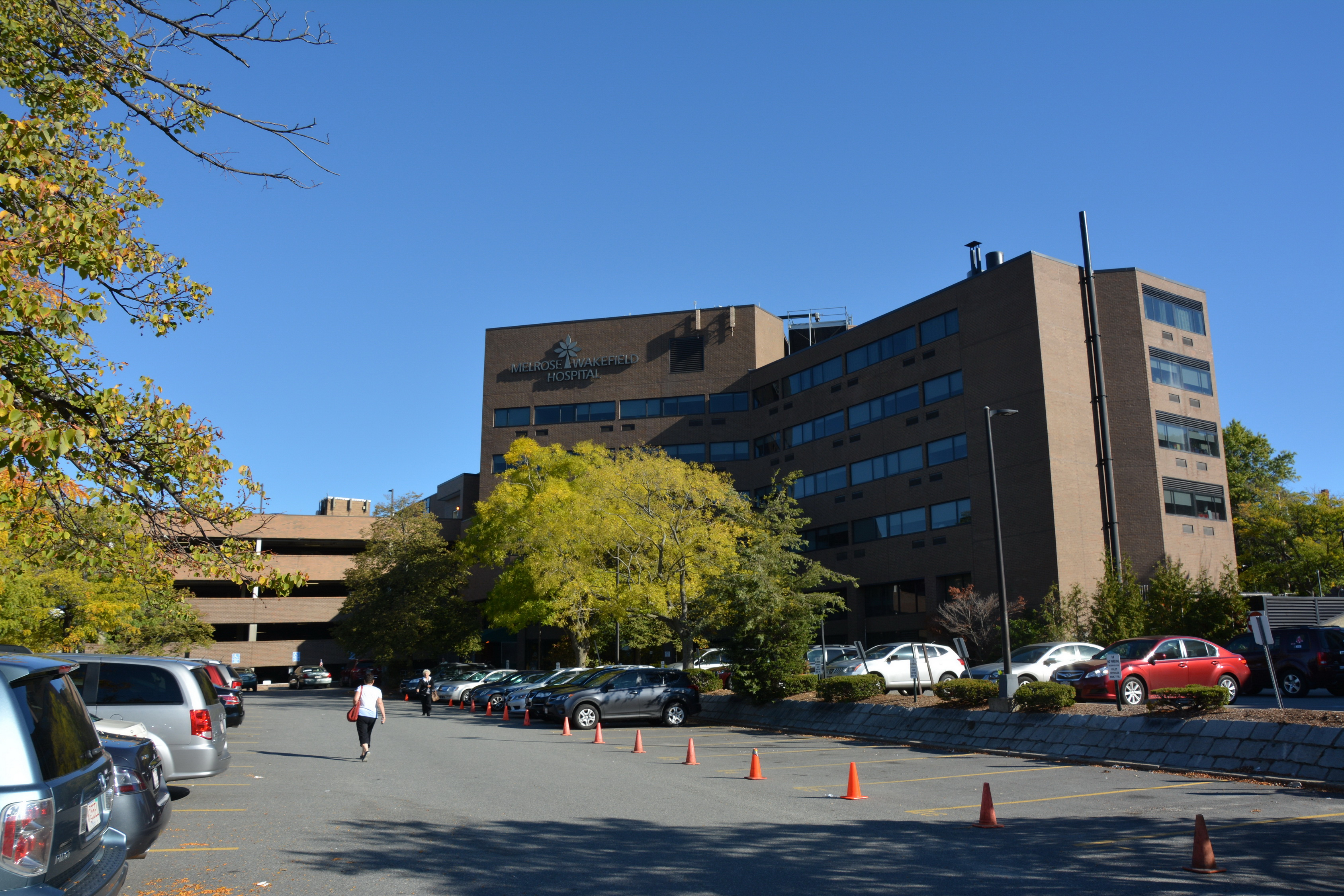 in Melrose, MA